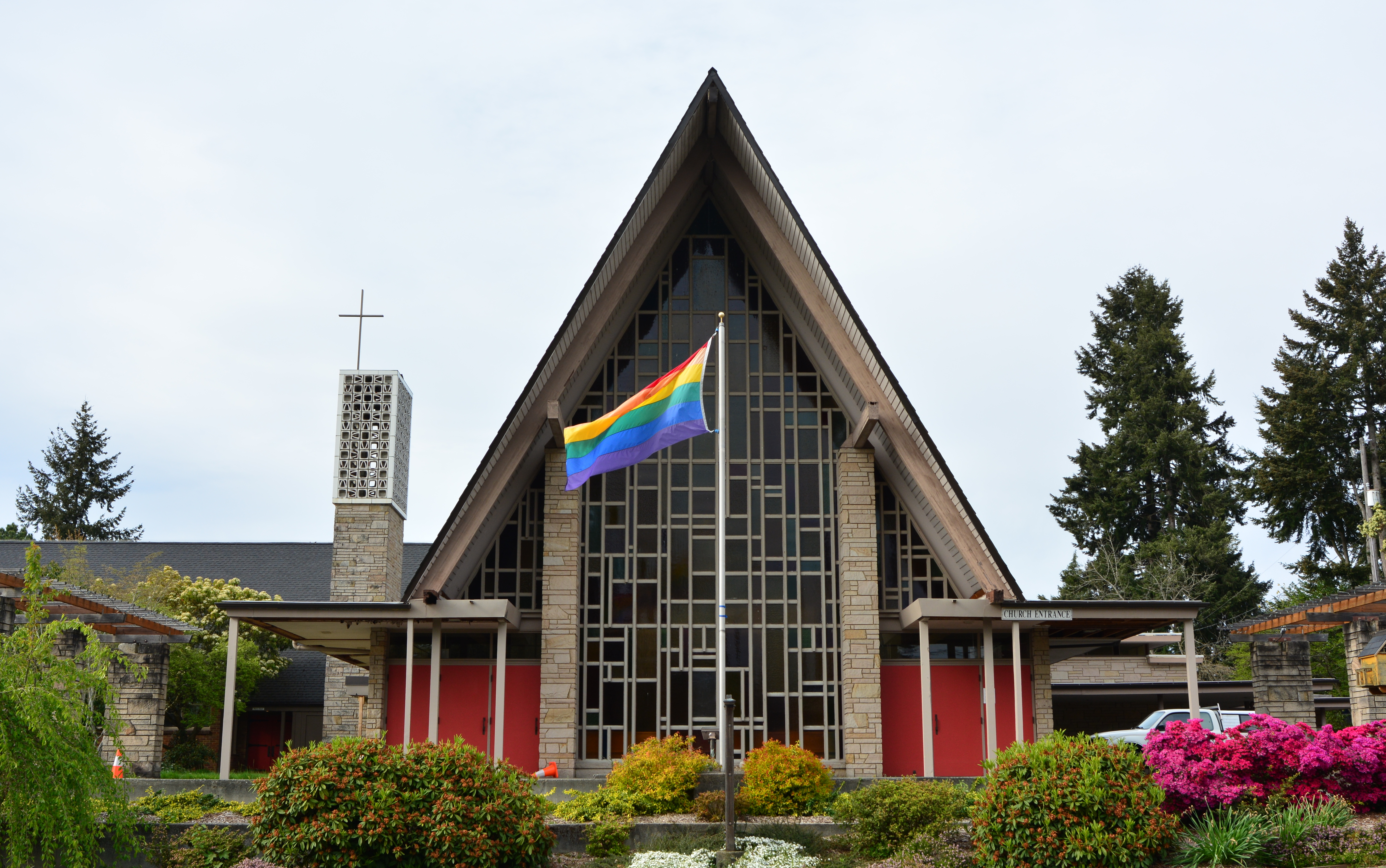 Sand Point Community United Methodist Church, 4710 NE 70th St, Seattle, Washington. Despite the name, this is actually in View Ridge, not Sand Point.